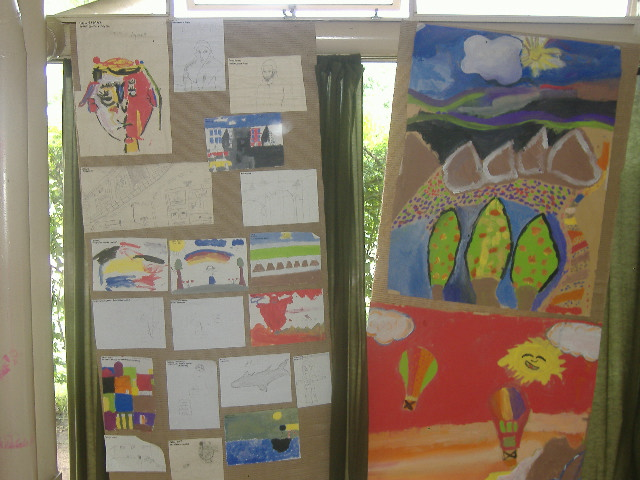 Some drawing of kids in the caff